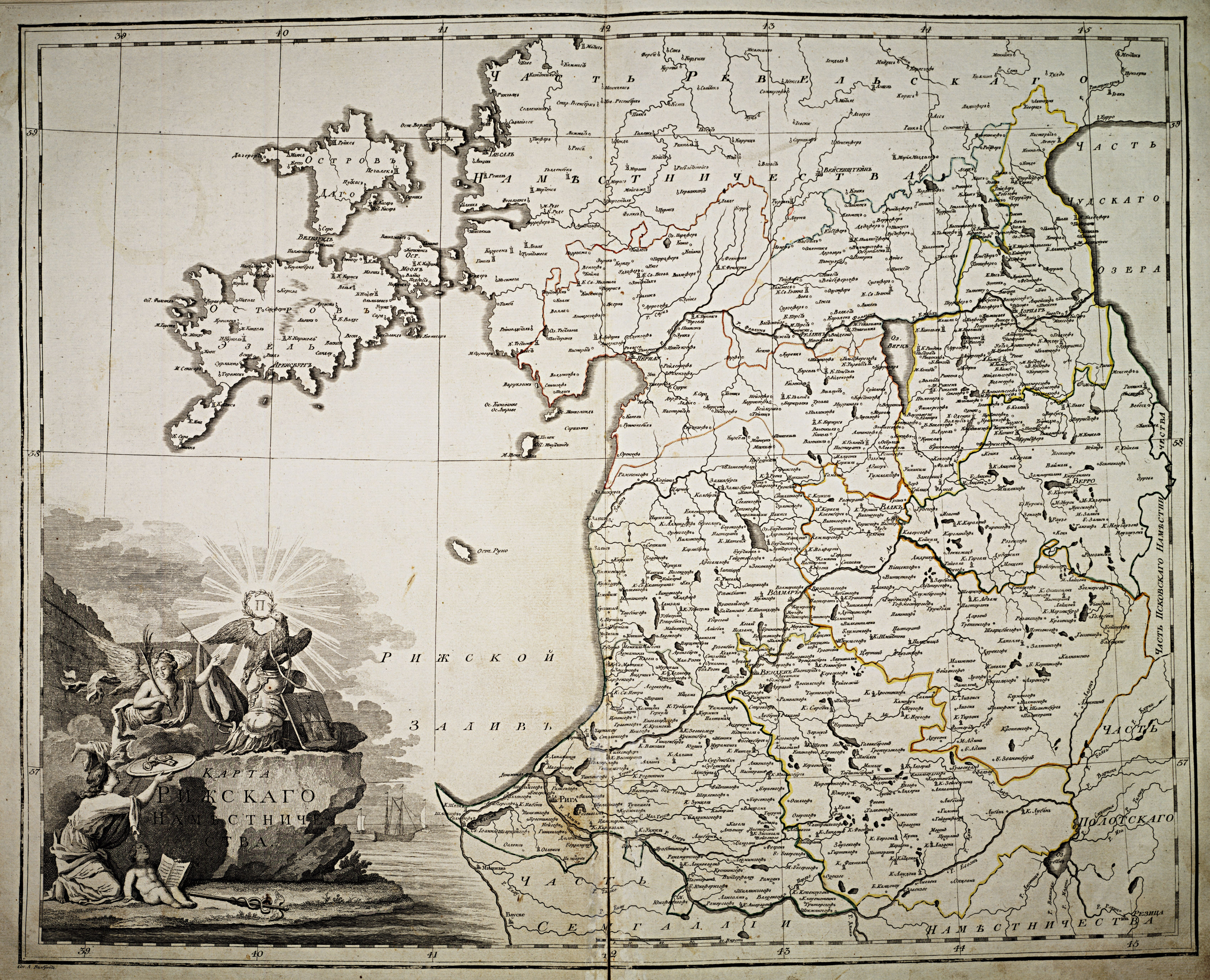 Map of Riga Namestnichestvo (sheet 6) from official Atlas of the Russian Empire (1792).